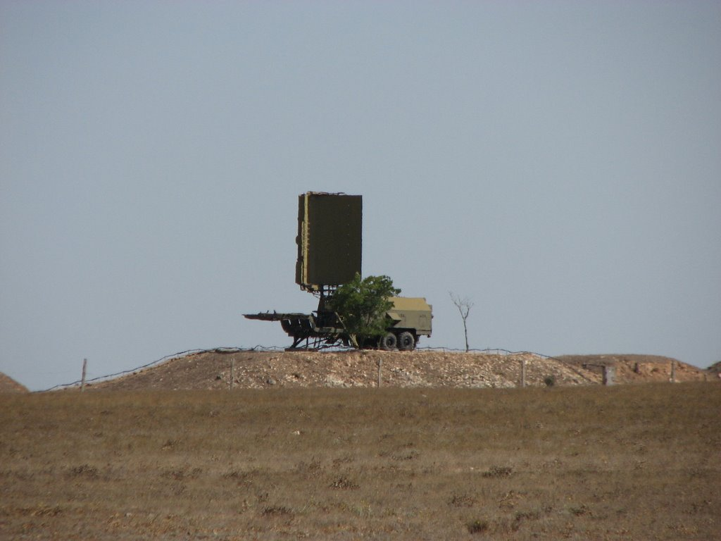 An Ukrainian ST-68 radar on the Crimean.